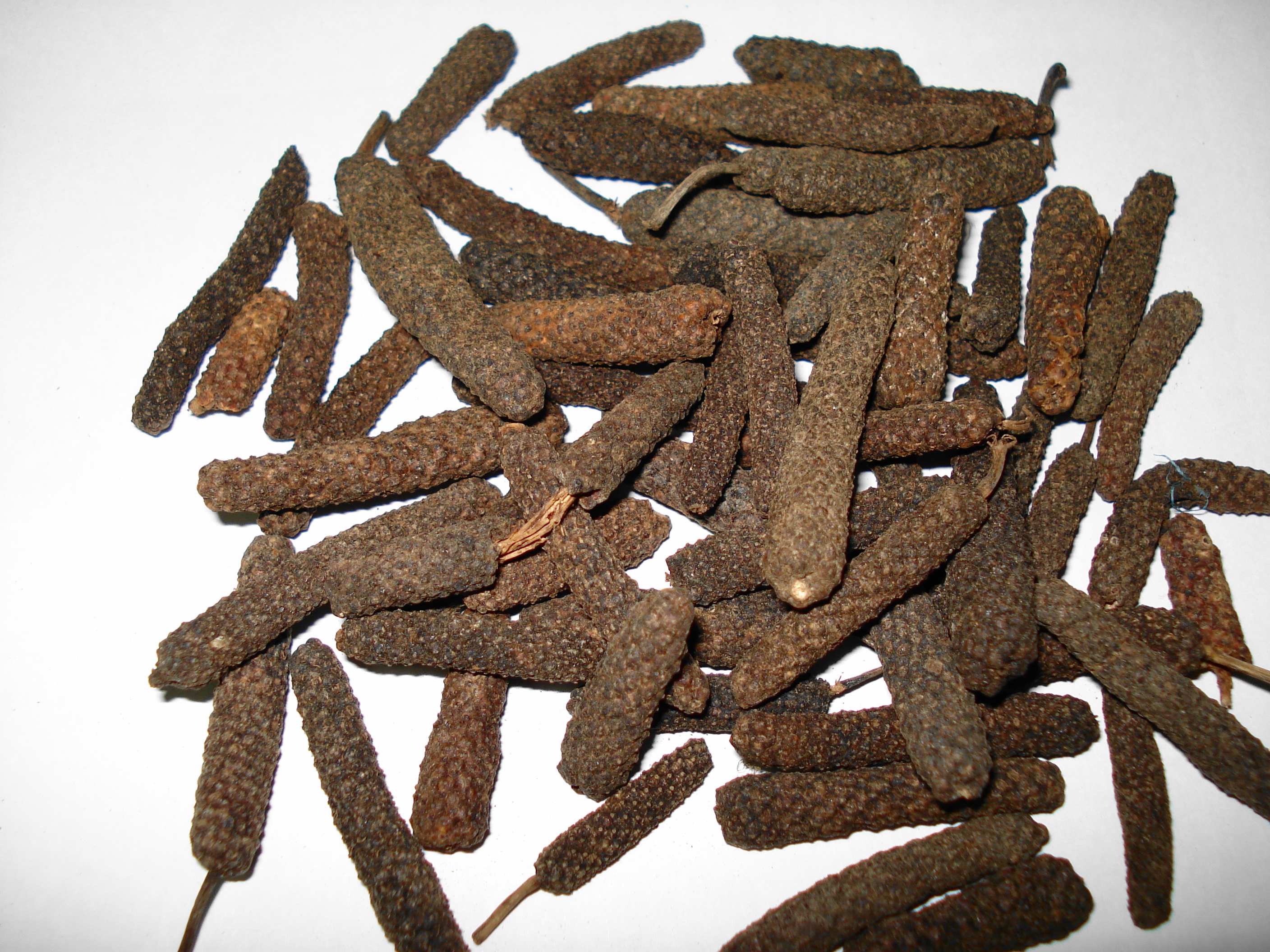 Long pepper also known as peppli in urdu and filfil daraz in arabic